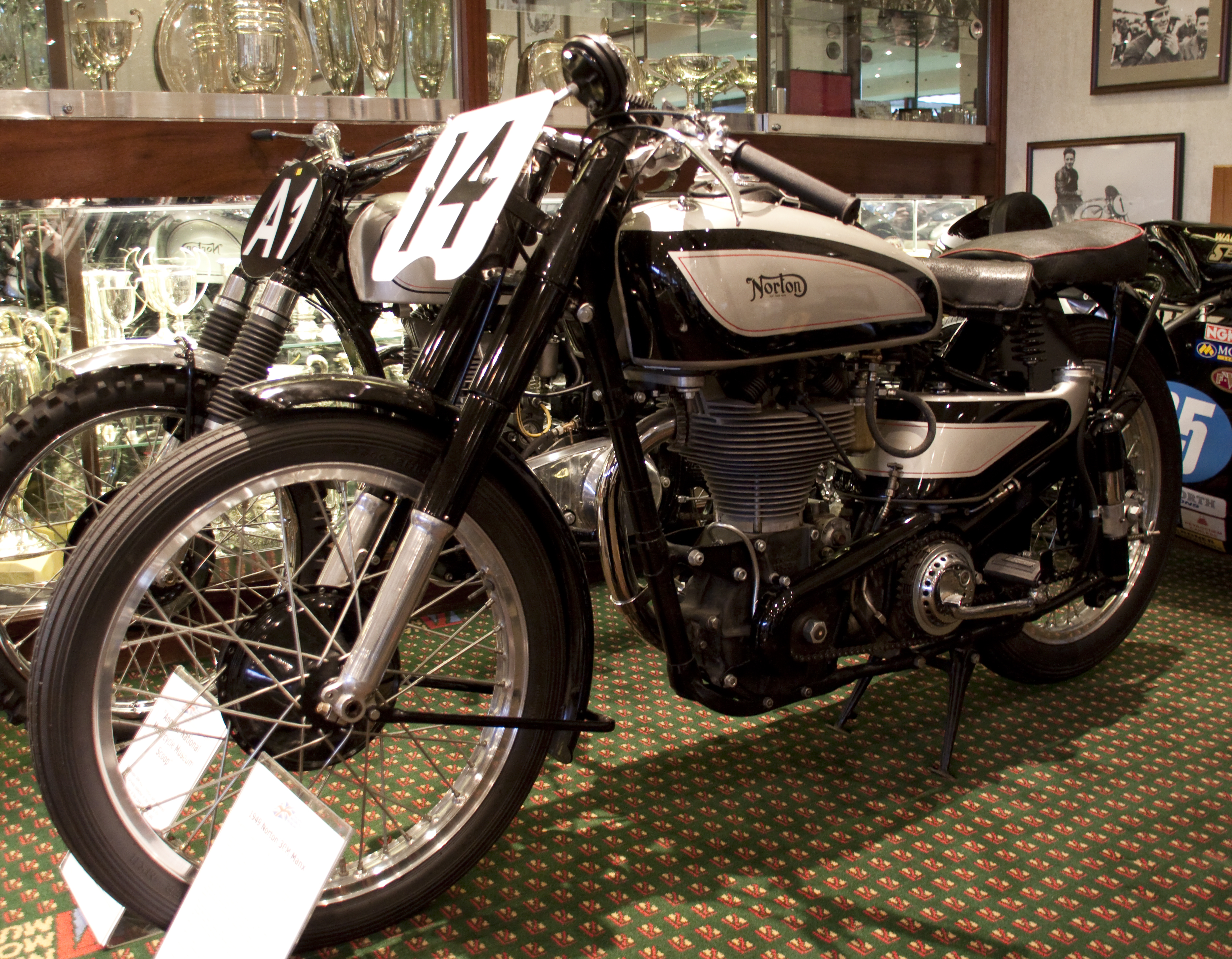 Norton 1949 Manx 500